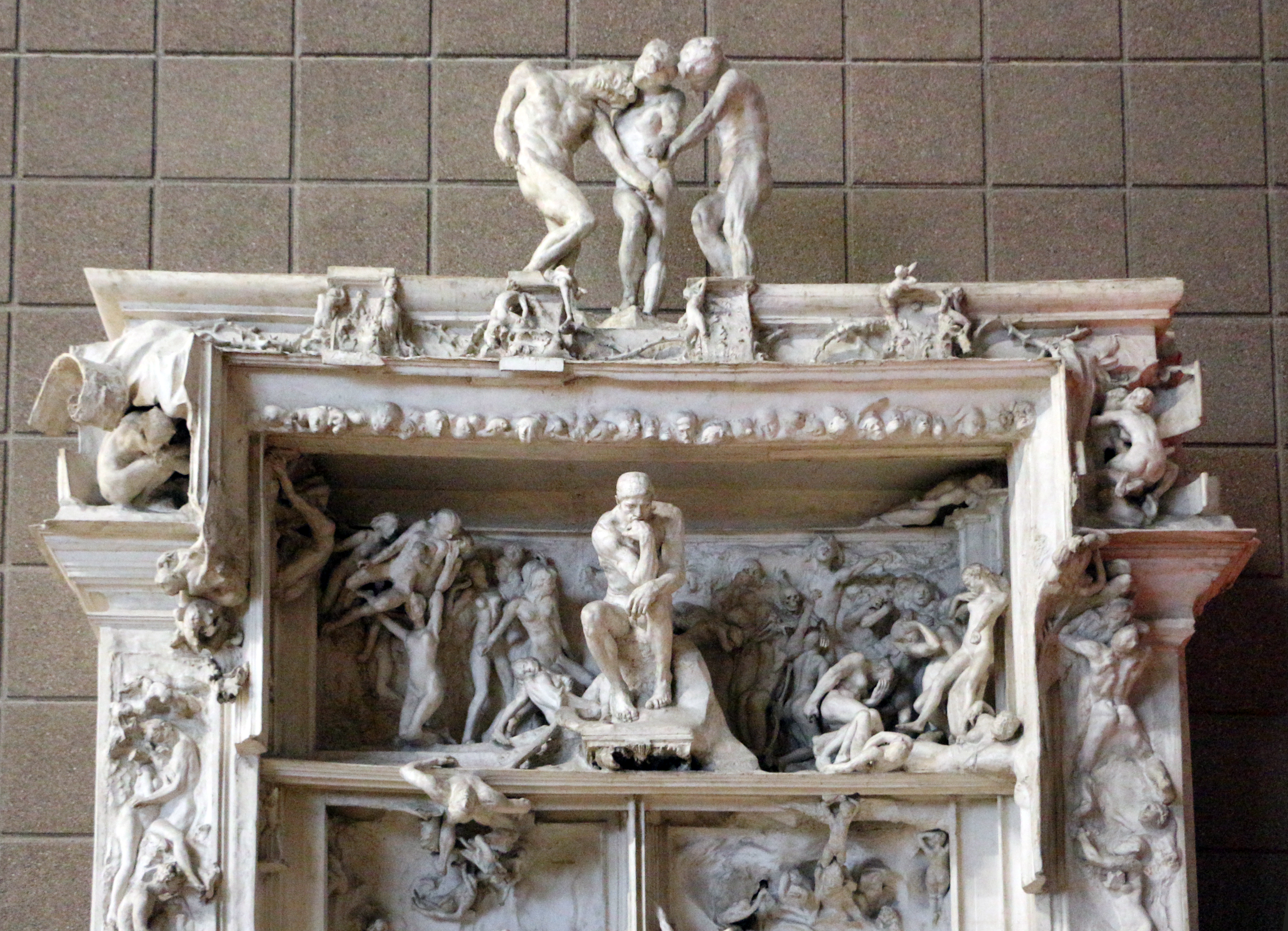 Sculptures by Auguste Rodin in the Musée d'Orsay